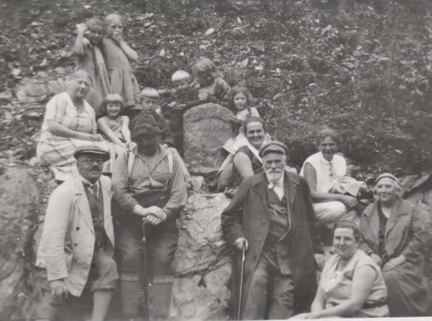 Konrad Habel